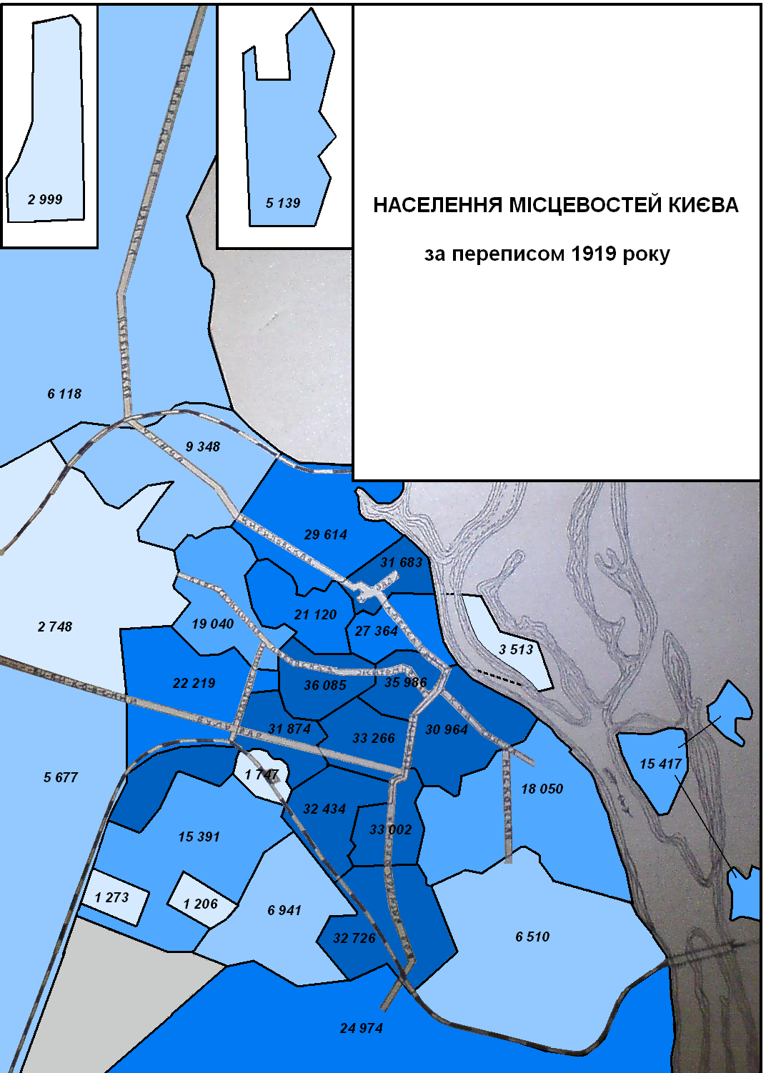 Population of Kyiv's districts according to 1919 census